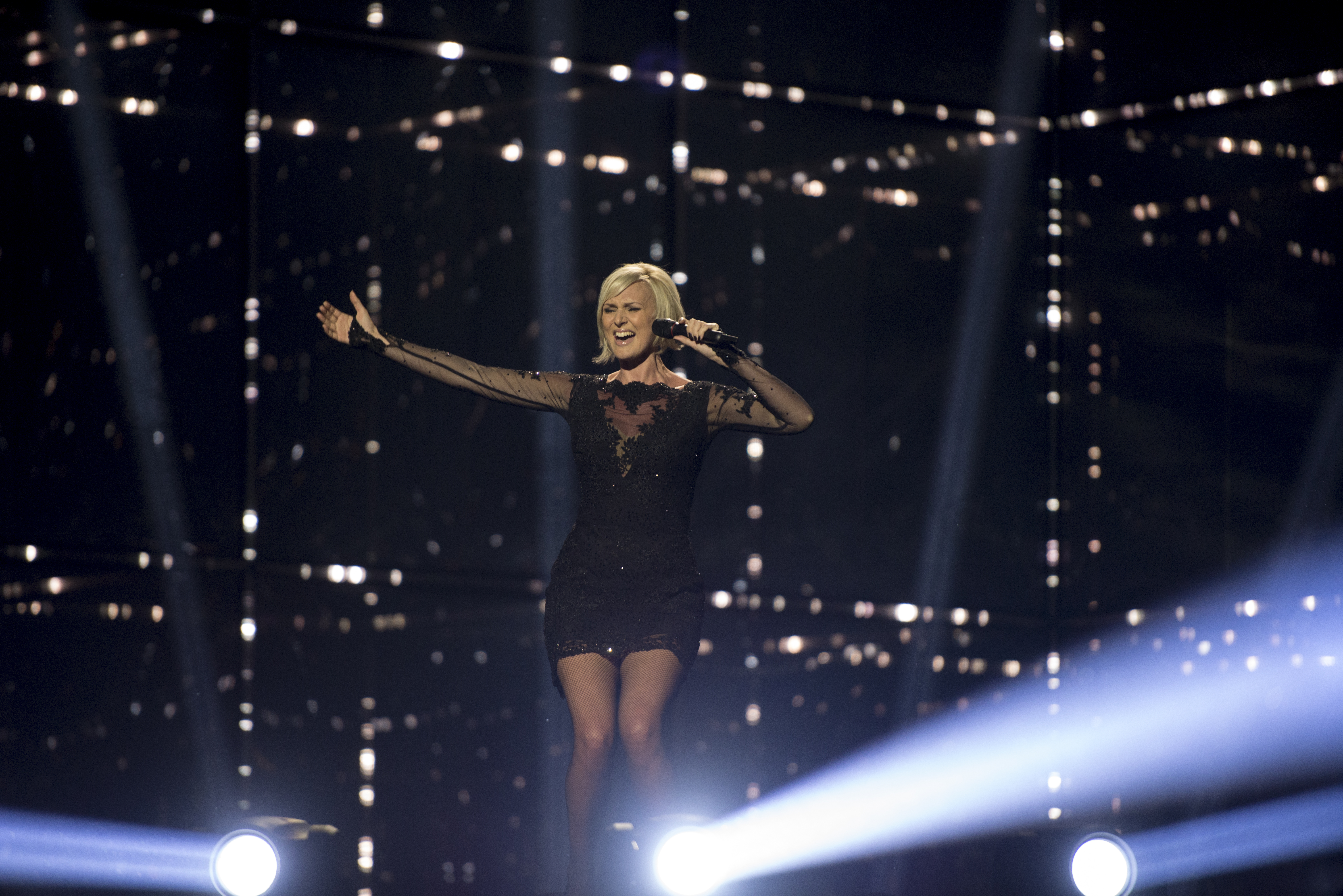 Sanna Nielsen representing Sweden with the song "Undo" during the first dress rehearsal of the first semi final of the Eurovision Song Contest 2014 Copenhagen. (Help translate this text)